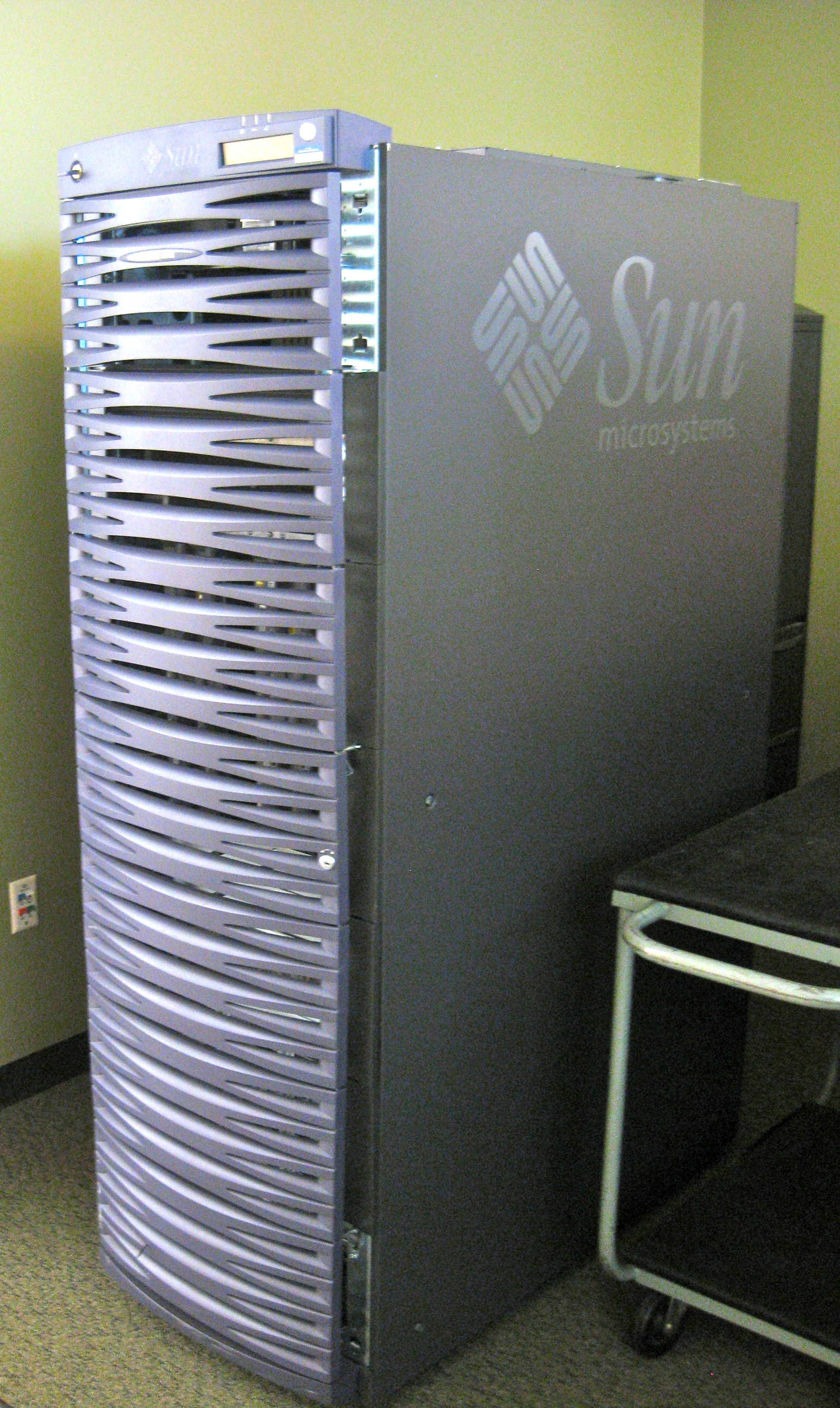 Side view of a Sun Fire 6800 server